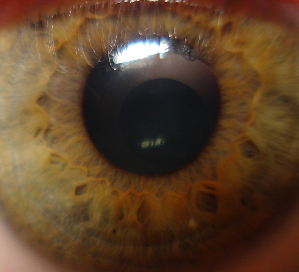 green eye